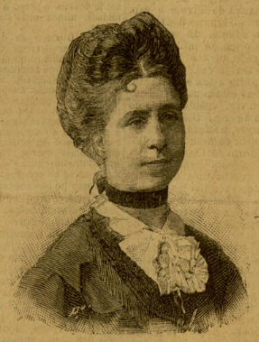 Eugénia Nunes Viseu (1847-1888), Viscountess of São Caetano